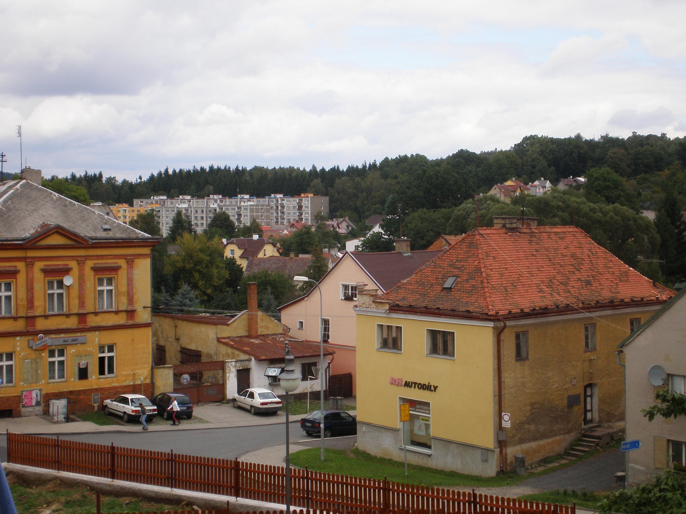 City of Kynšperk nad Ohří, Sokolov District, Czech Republic.